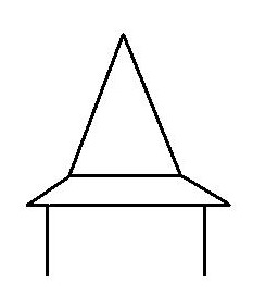 Pyramid roof - scheme